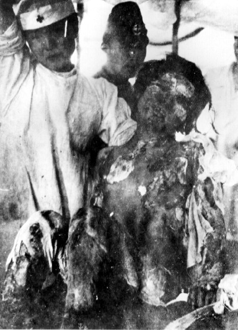 Victim of Atomic Bomb of Nagasaki. She was a 14-year-old student.